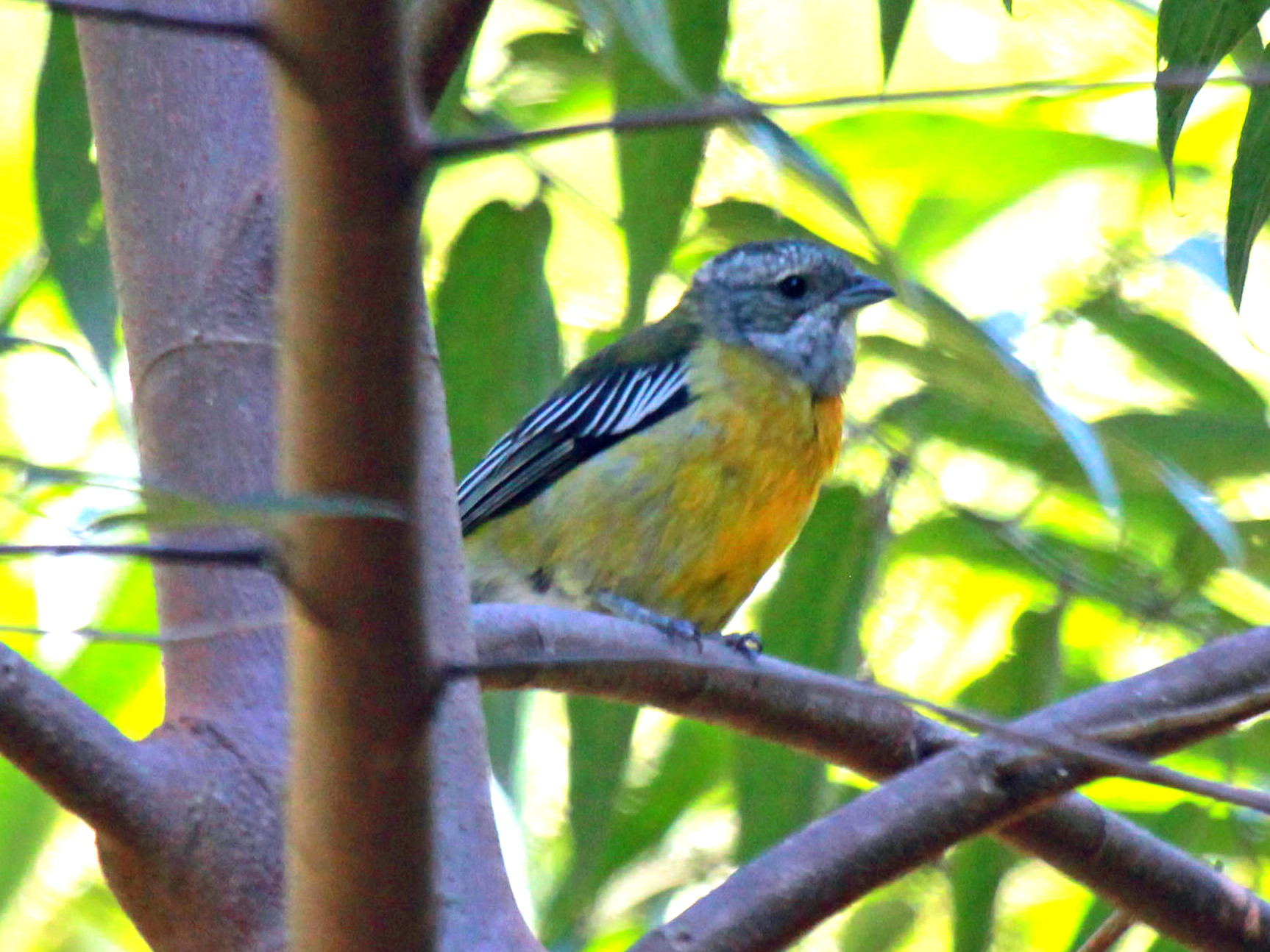 Female Jamaican Spindalis (Spindalis nigricephala) - Blue Mountains, Jamaica